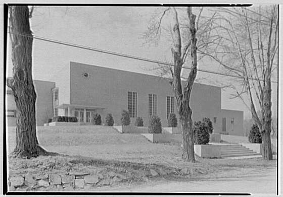 Title: Harrison High School, Harrison, New York. Abstract/medium: Gottscho-Schleisner Collection (Library of Congress) Physical description: 1 negative